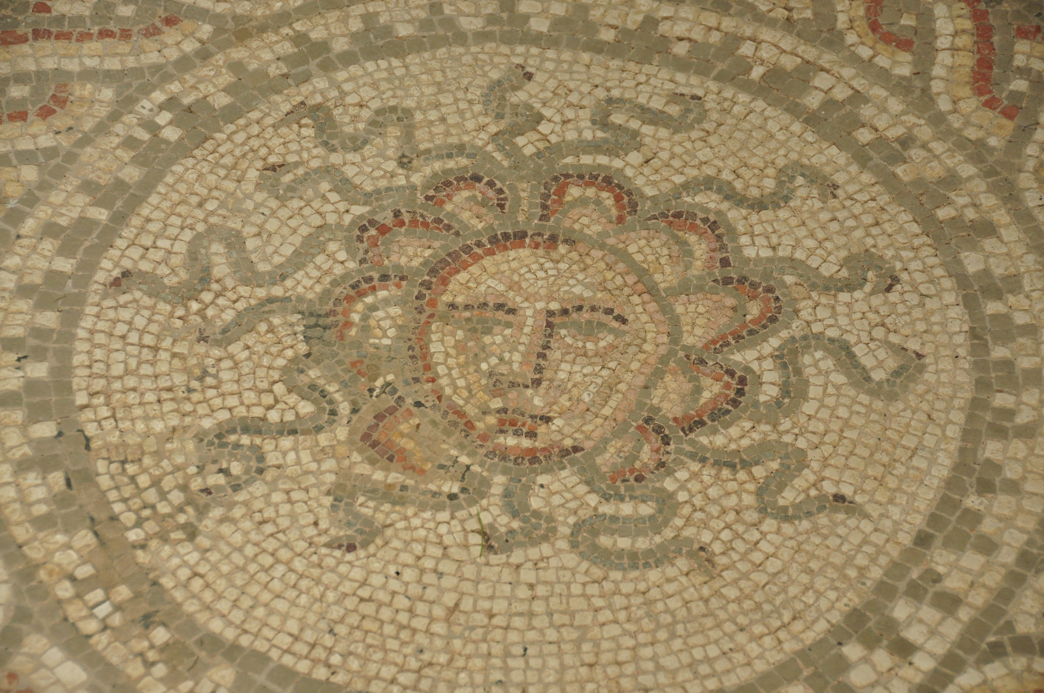 Mosaic at Bignor Villa